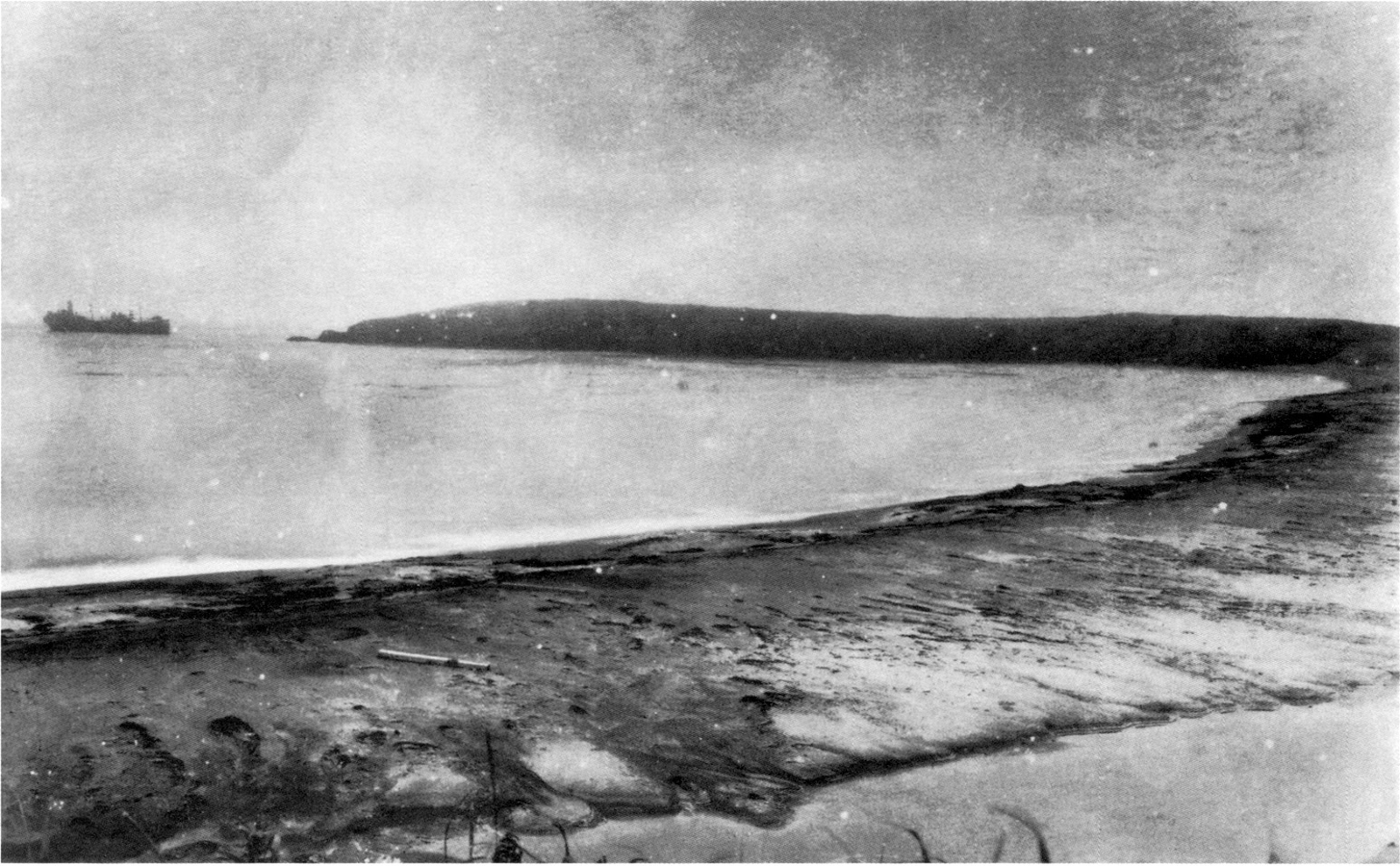 Cape Kokutan, East of Shumshu Island